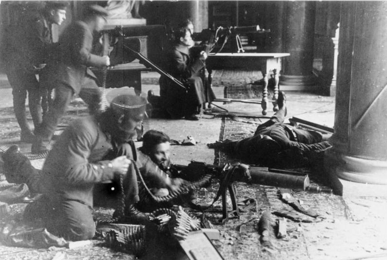 In a foreground and background soldiers with Maxim MG 08/15 machine guns, in the middle MG 08 heavy machine gun.